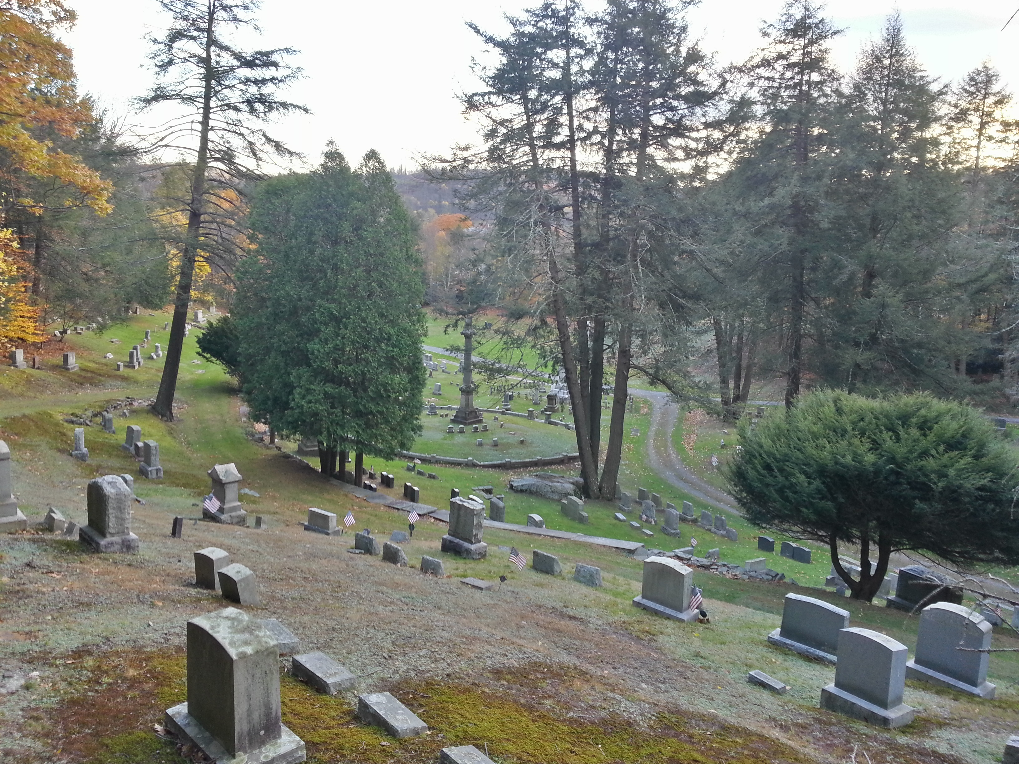 Glen Dyberry Cemetery Southern Section